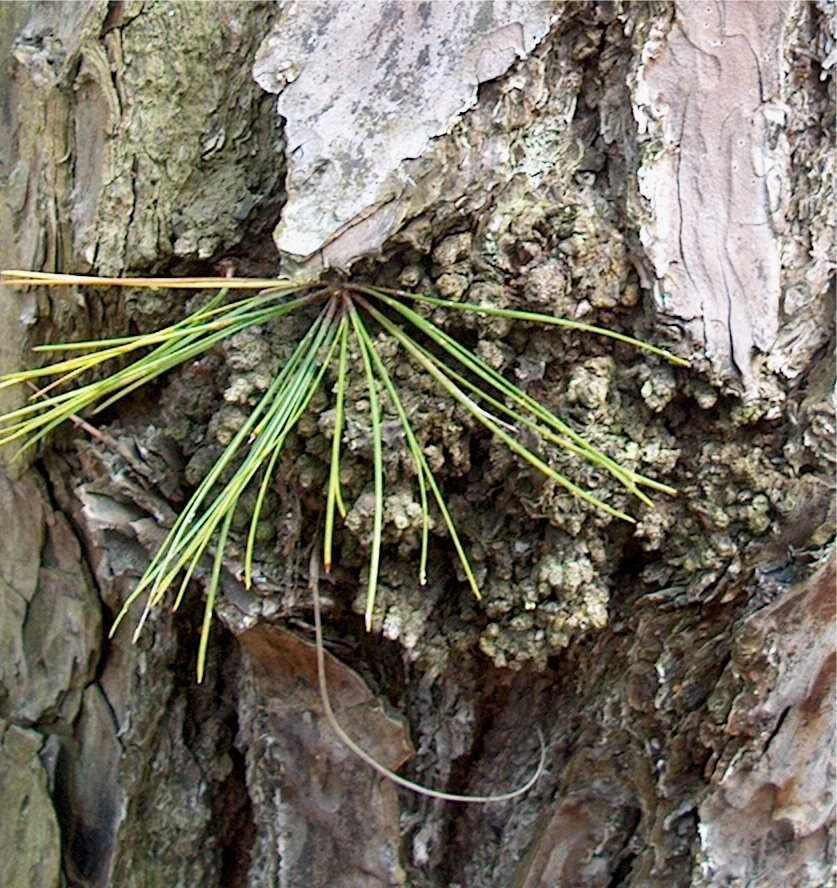 Pond pine needles growing straight from the trunk. False Cape State Park, Virginia Beach, Virginia.